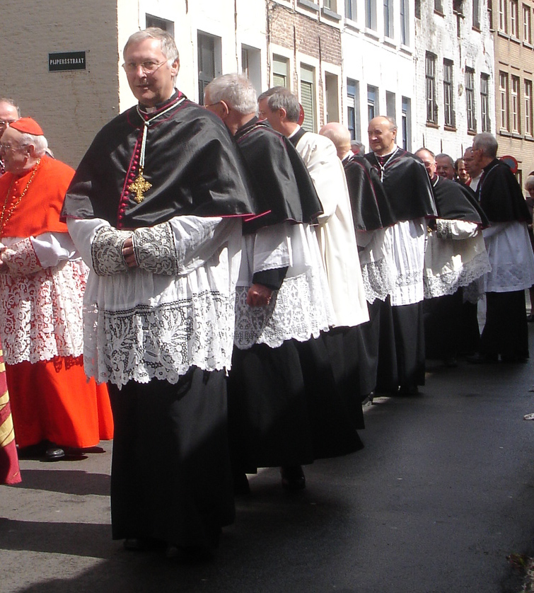 Feast of the Ascension, 2008 in Bruges